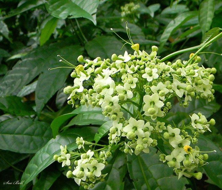 Inflorescence and leaves of Clerodendrum umbellatum Poir. - Cultivated in Harare Botanical Garden, Zimbabwe